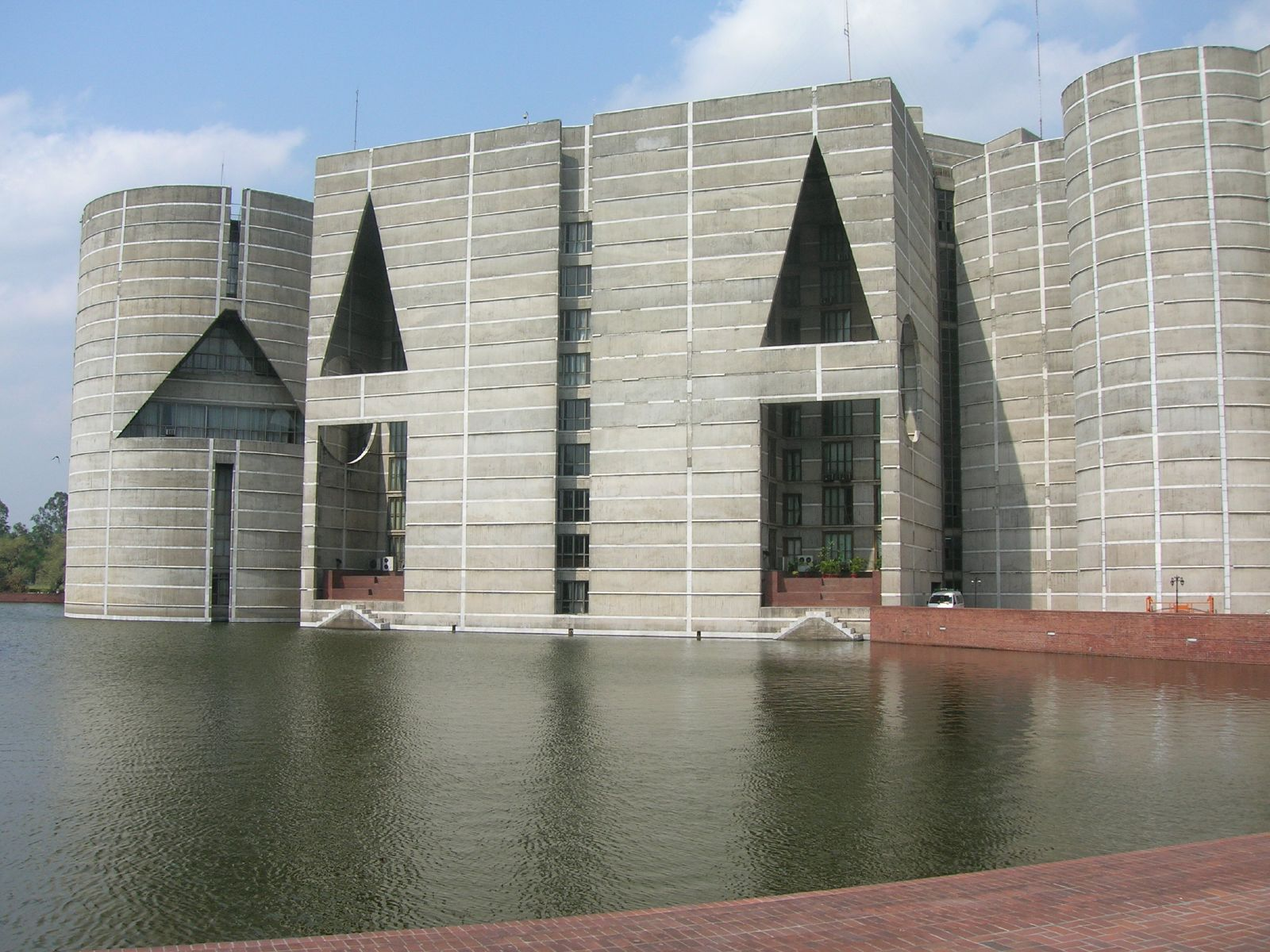 Dhaka Architect by Louis Kahn.